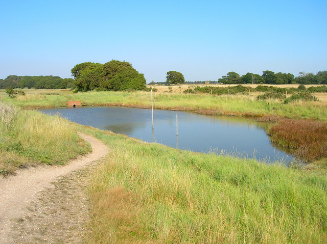 Horse Pond. Opposite view to 97213 and taken on a warm summer's day rather than frozen over in winter. The footpath from West Wittering to Itchenor is in the foreground and runs across the bridge at the far end of the pond.